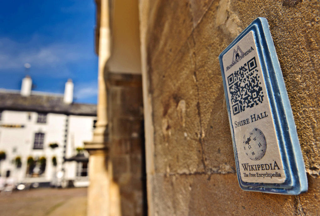 QRpedia plaque for Shire Hall, Monmouth